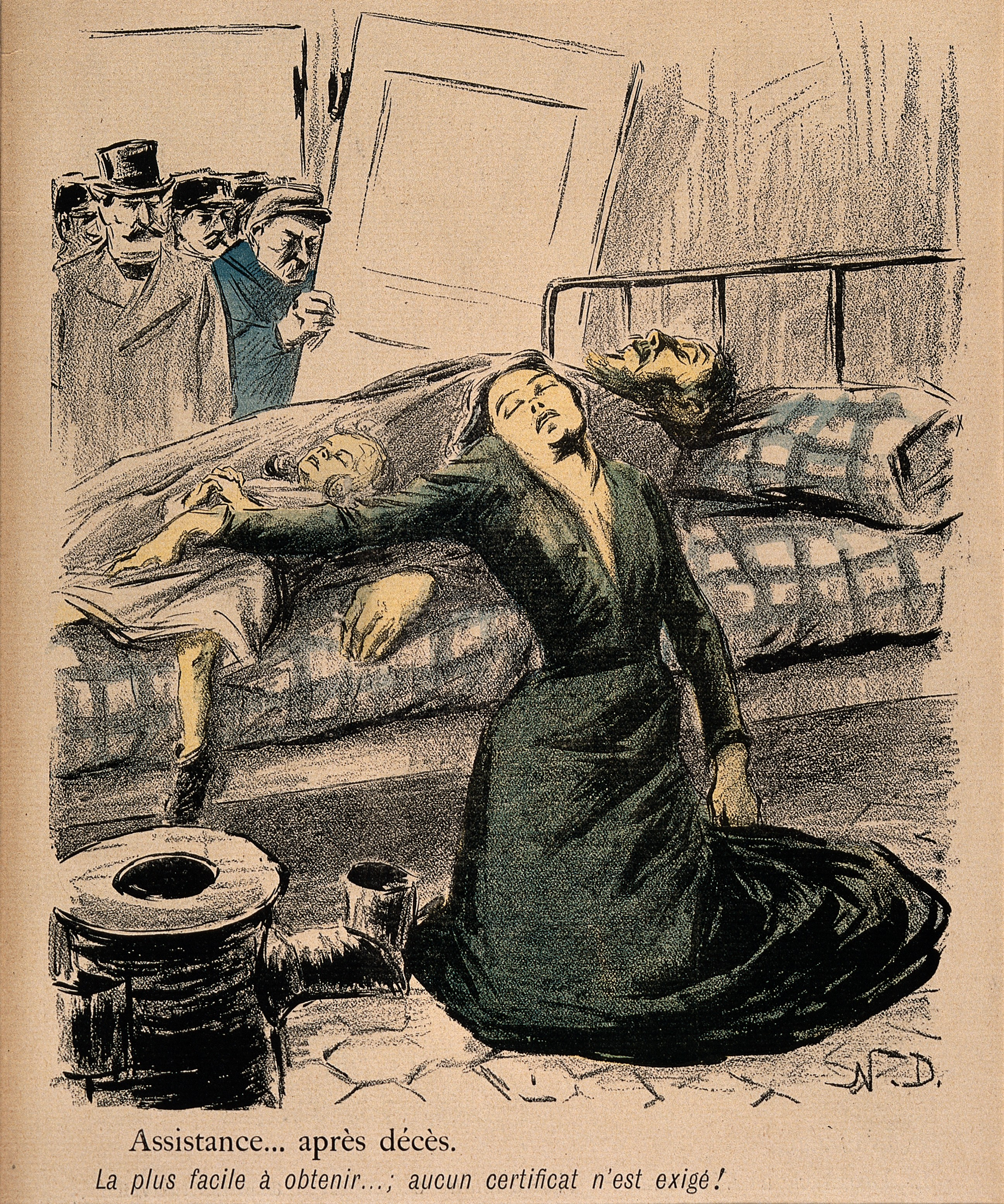 A family is discovered dead from starvation after waiting for welfare assistance. Colour photomechanical reproduction of a lithograph by N. Dorville, c. 1901. Iconographic Collections Keywords: Noël Dorville; Starvation